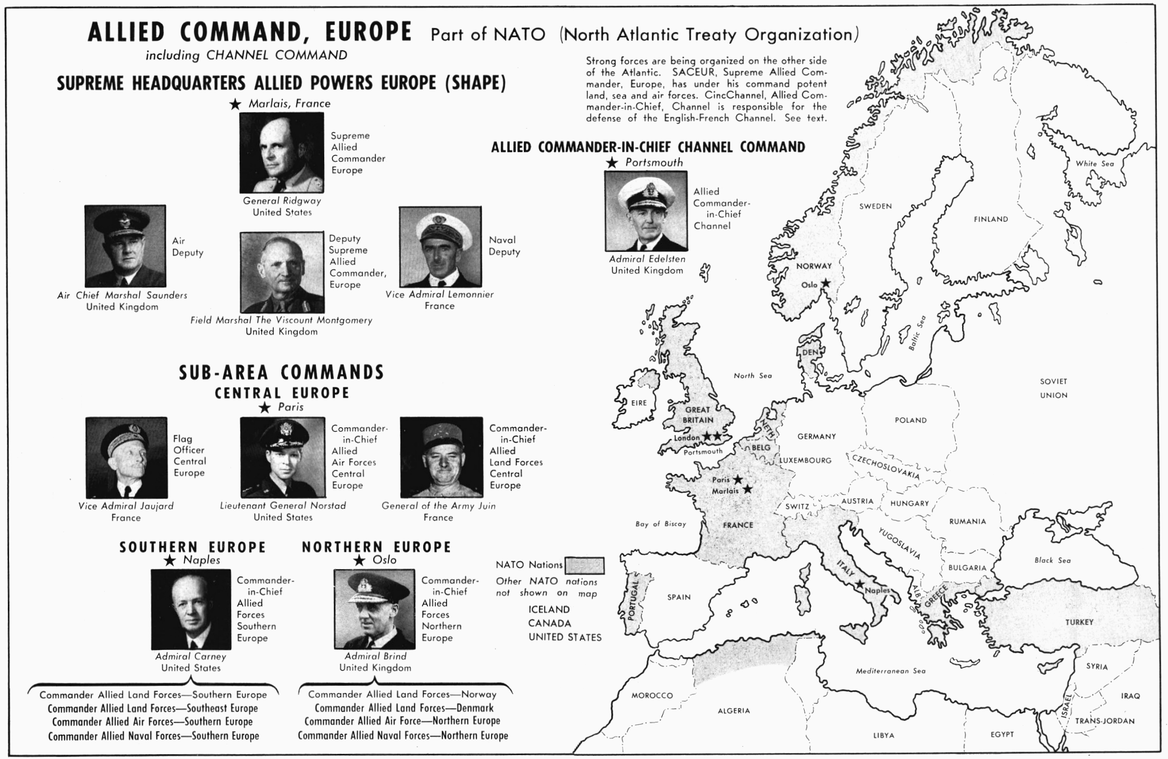 1952 organizational chart of the North Atlantic Treaty Organization (NATO), Allied Command, Europe.